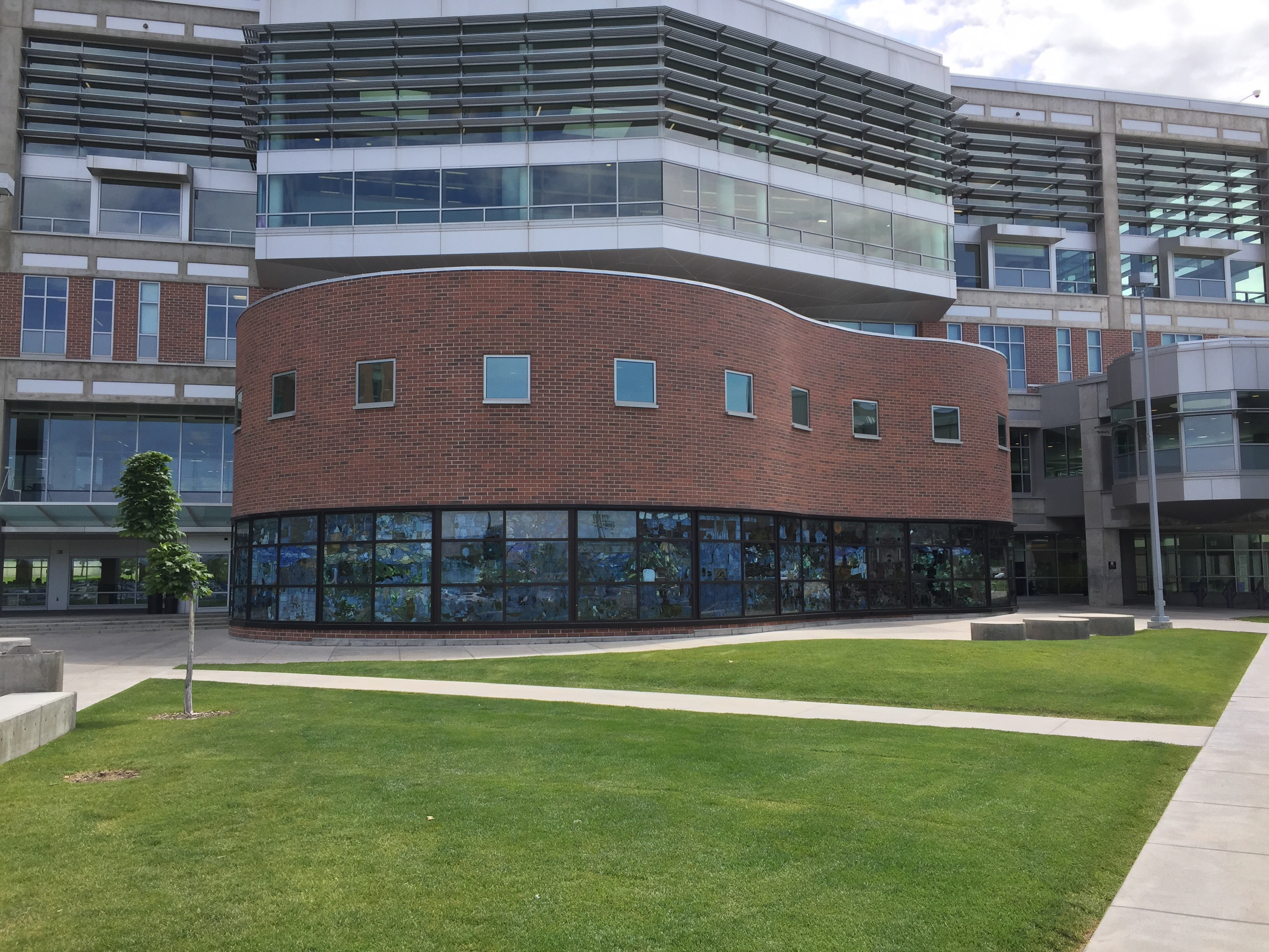 Roots of Knowledge stained glass installation at the Fulton Library at Utah Valley University in Orem, Utah.